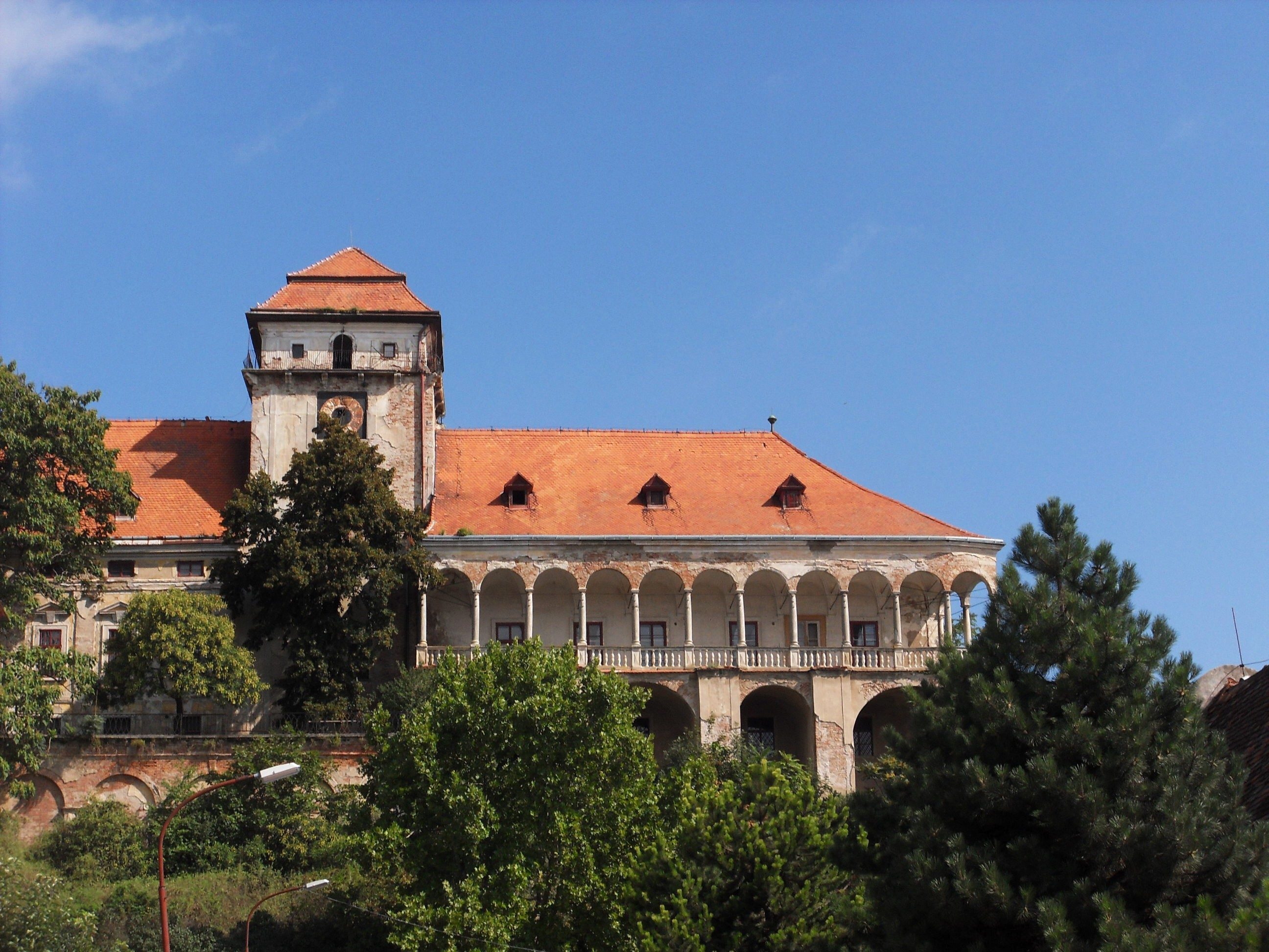 Jaroslavice castle, Znojmo district, Czech Republic